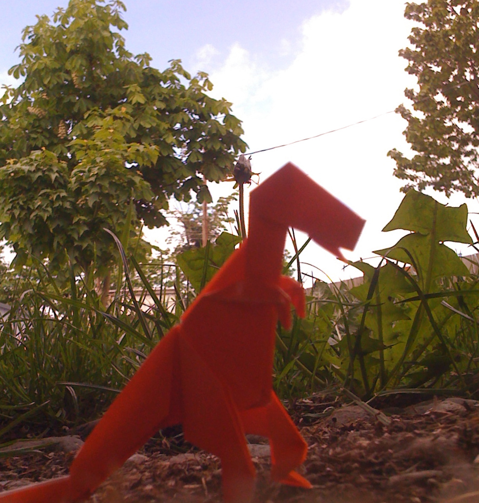 An origami Tyrannosaurus folded from instructions in John Montroll's "Animal Origami for the Enthusiast". Paper is 175mm x 175mm; finished piece is 70mm tall.